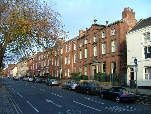 Georgian town houses - Friar Gate, Derby Remarkably this row of fine Georgian town houses has managed to survive the destructive tendencies of Derby's town "planners". This section of Friar Gate is largely the work of the noted architect, Joseph Pickford.